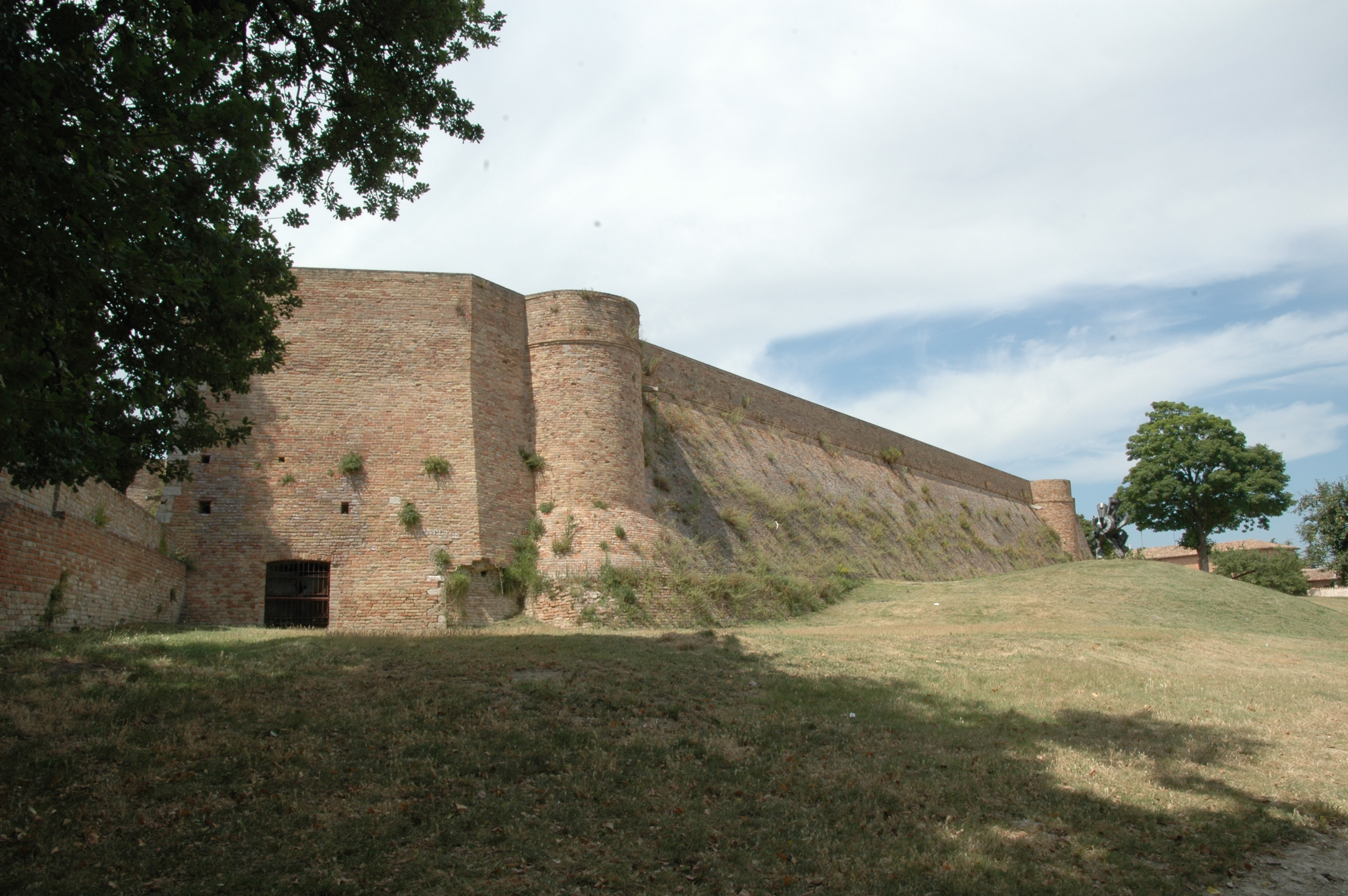 61029 Urbino, Province of Pesaro and Urbino, Italy